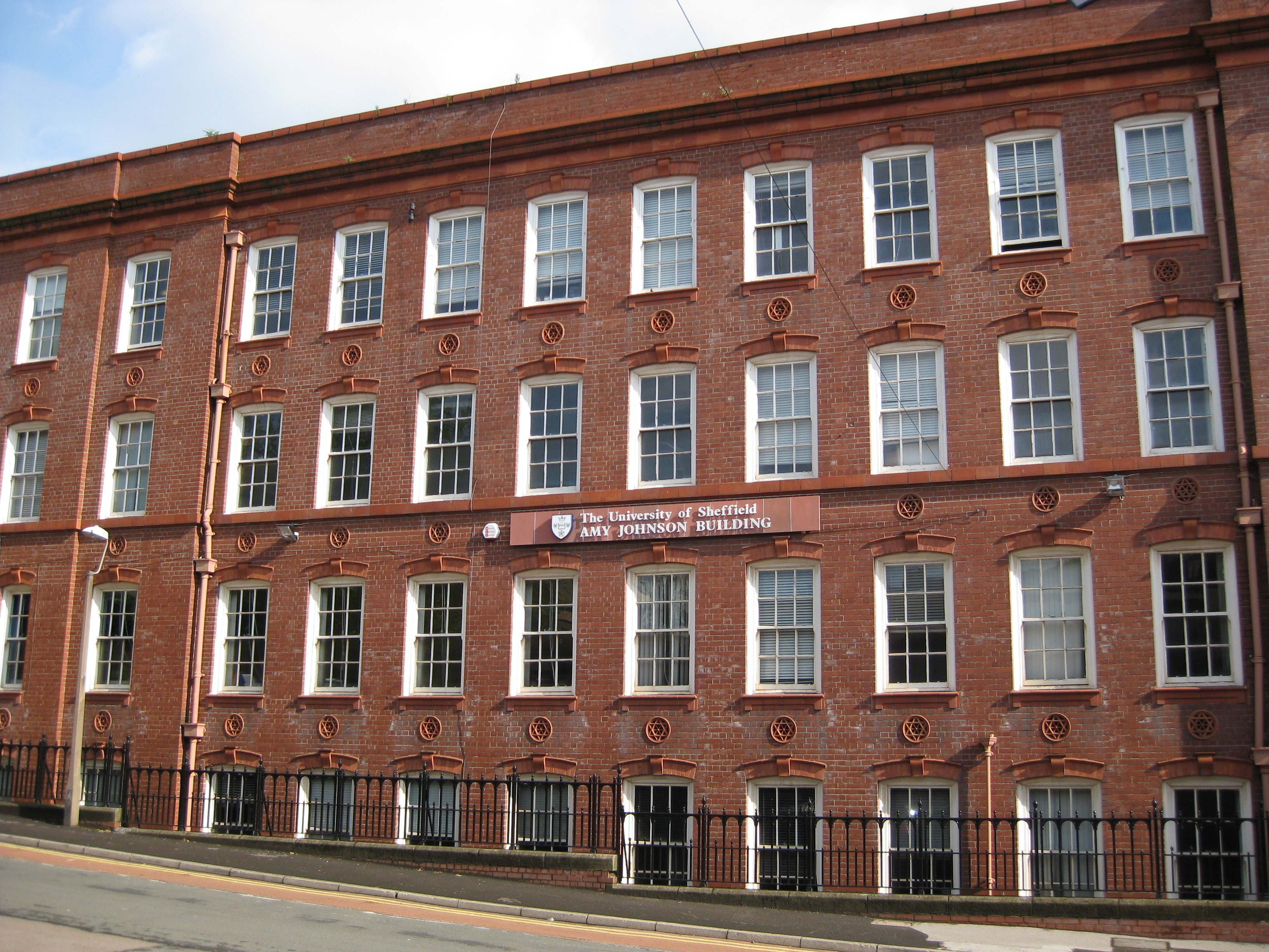 Amy Johnson Building, Portobello Street, University of Sheffield. Home to the Department of Automatic Control and Systems Engineering